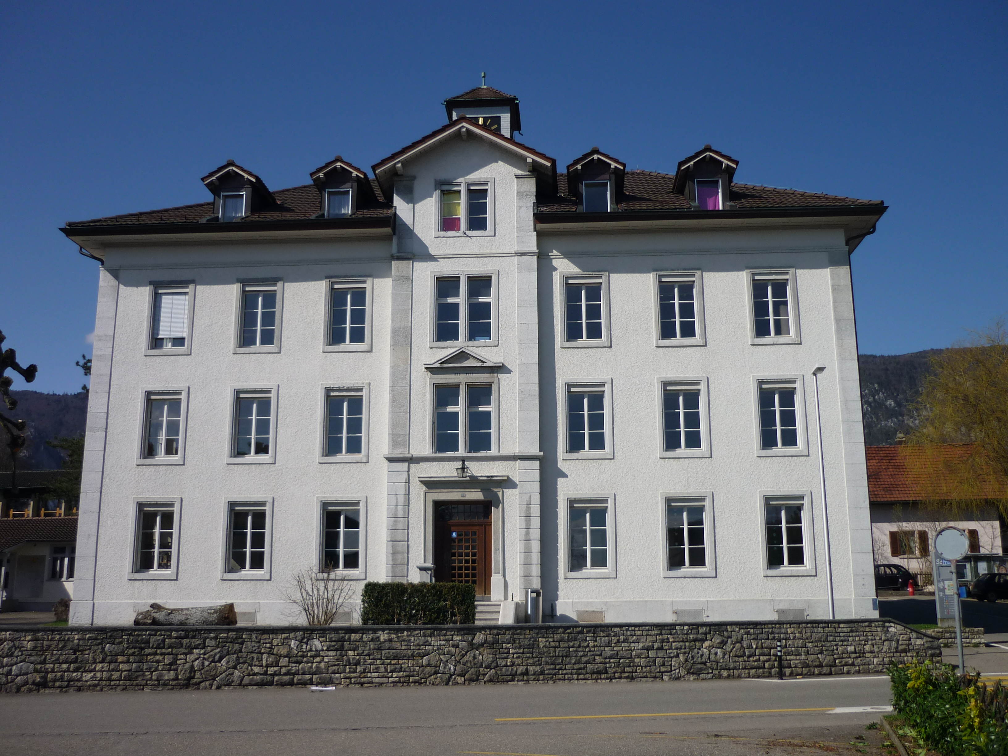 School building in Langendorf, Canton of Solothurn, Switzerland.